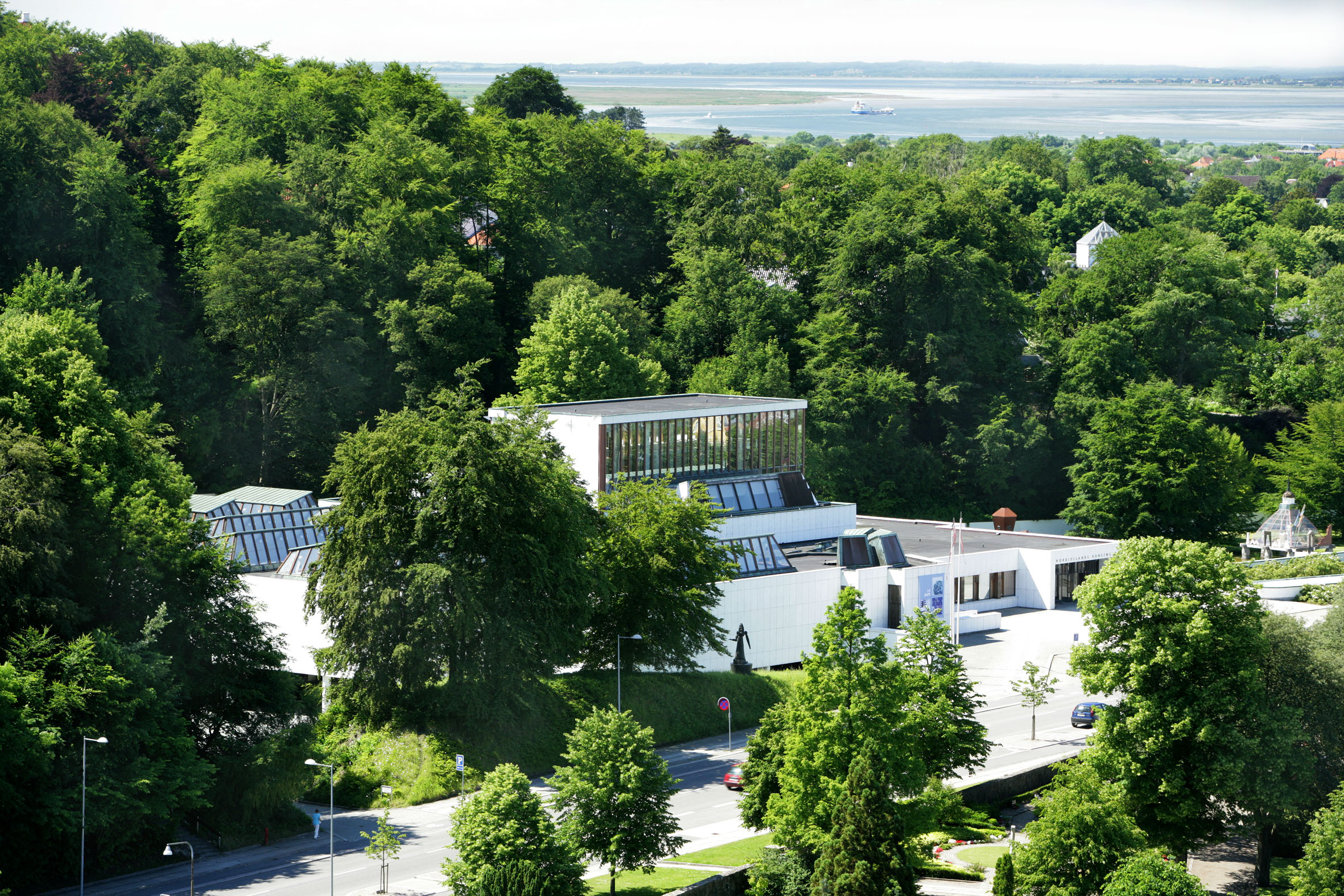 KUNSTEN Museum of Modern Art, Aalborg, Denmark. Designed by Elissa and Alvar Aalto and Jean-Jacques Baruel (1968-72).